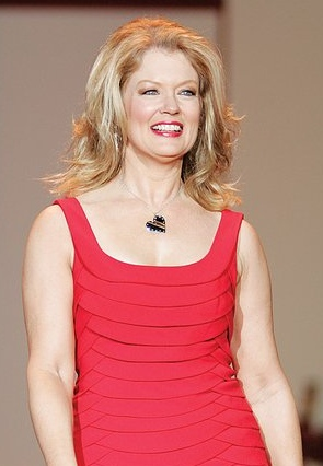 Mary Hart modeling for The Heart Truth charity fashion show 2007